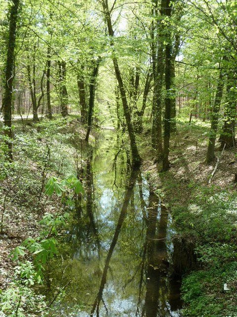 Hirschkanal im Hardtwald bei Karlsruhe